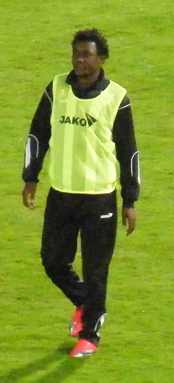 Francis Litsingi Congolese football player